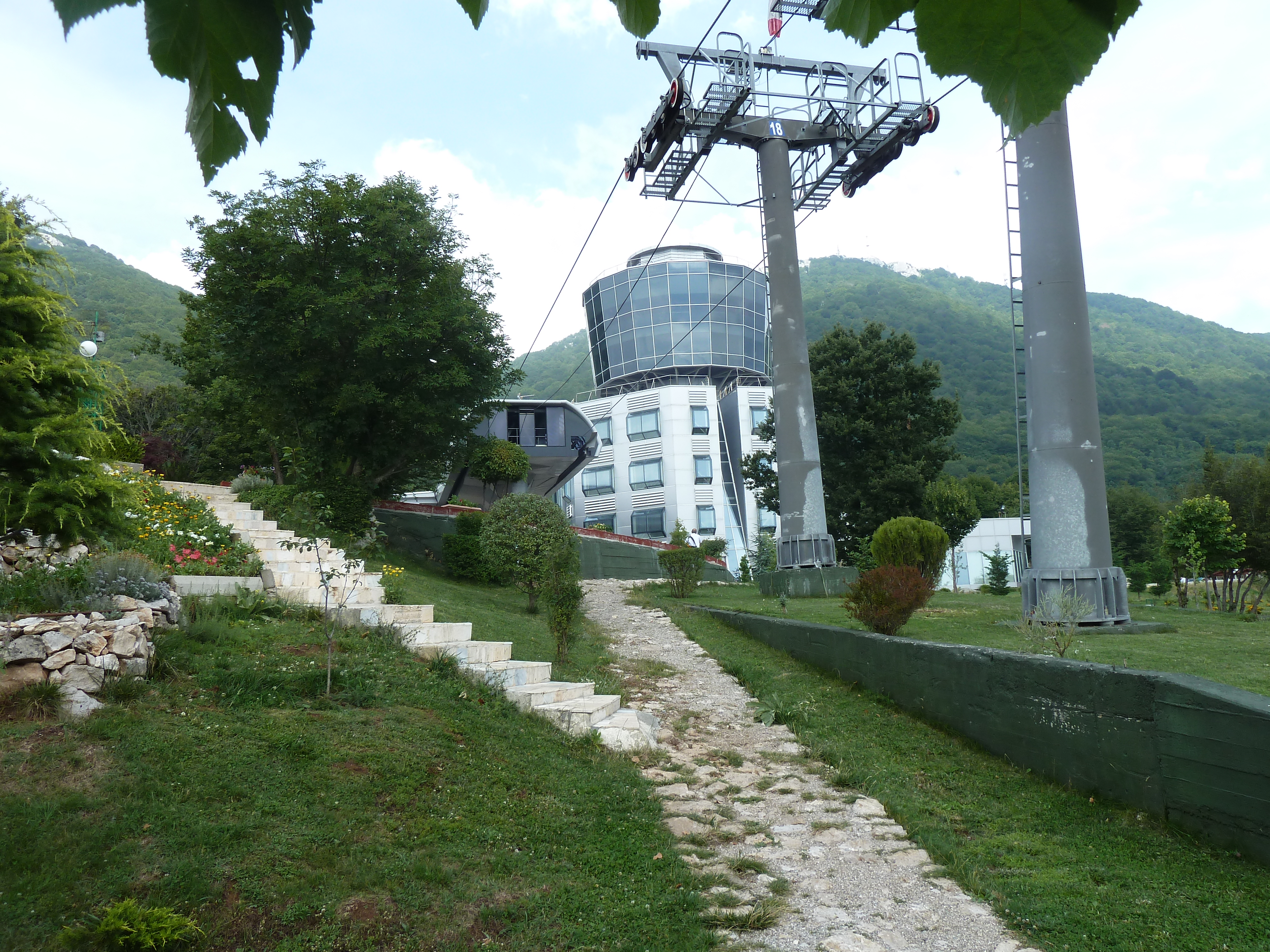 The top point of Dajti-Express, Tirana, Albania.